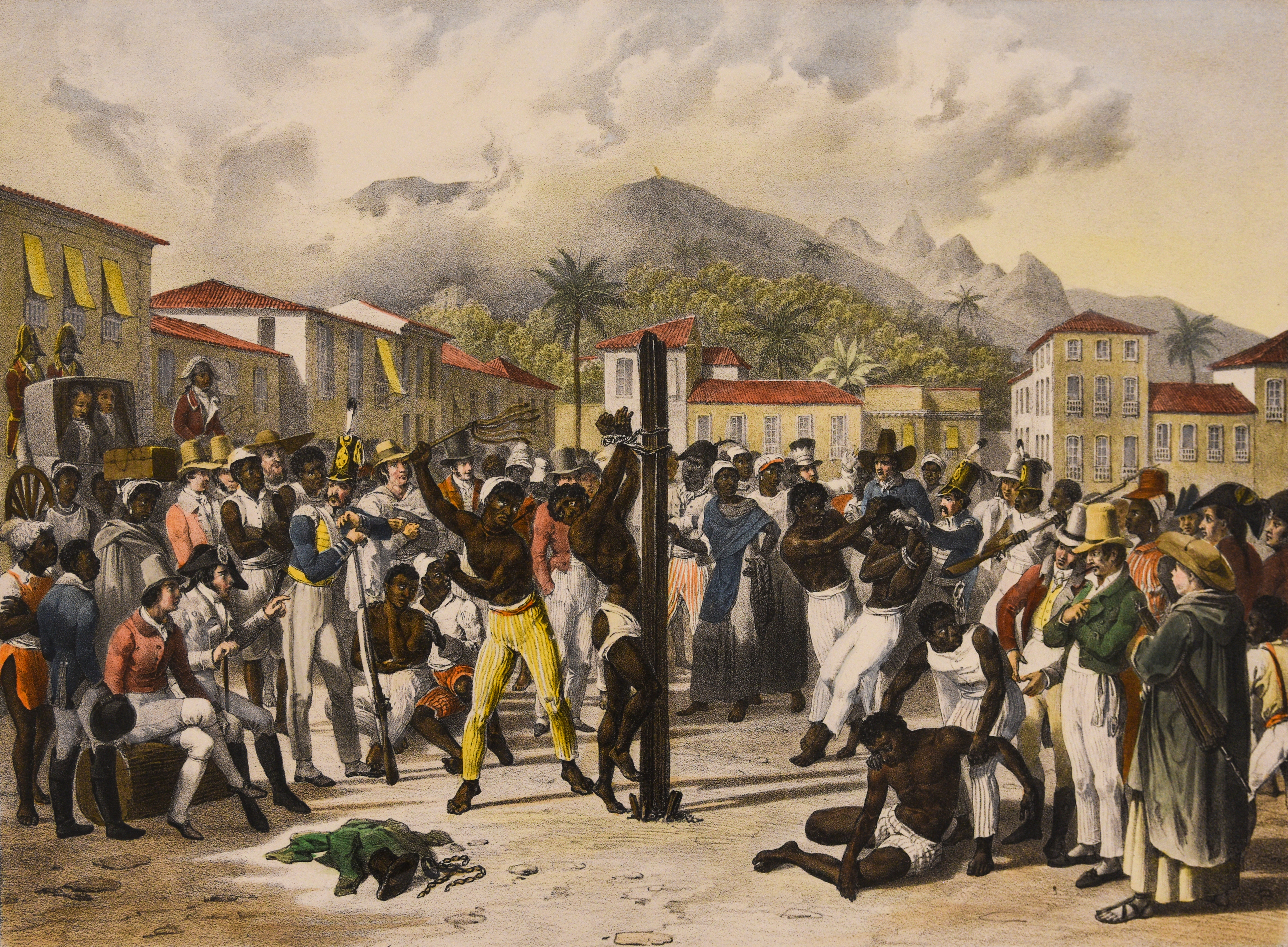 Punitions Publiques Sur La Place - Stª Anna painting by Johann Moritz Rugendas